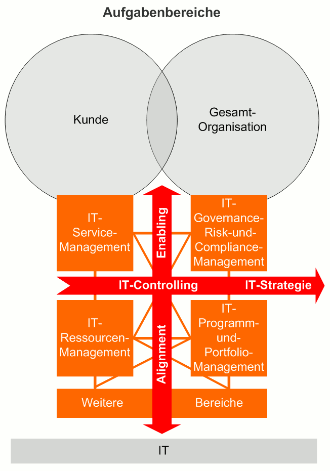 The diagram shows the most important areas in the subject of it management according to an empirical study from 2009.